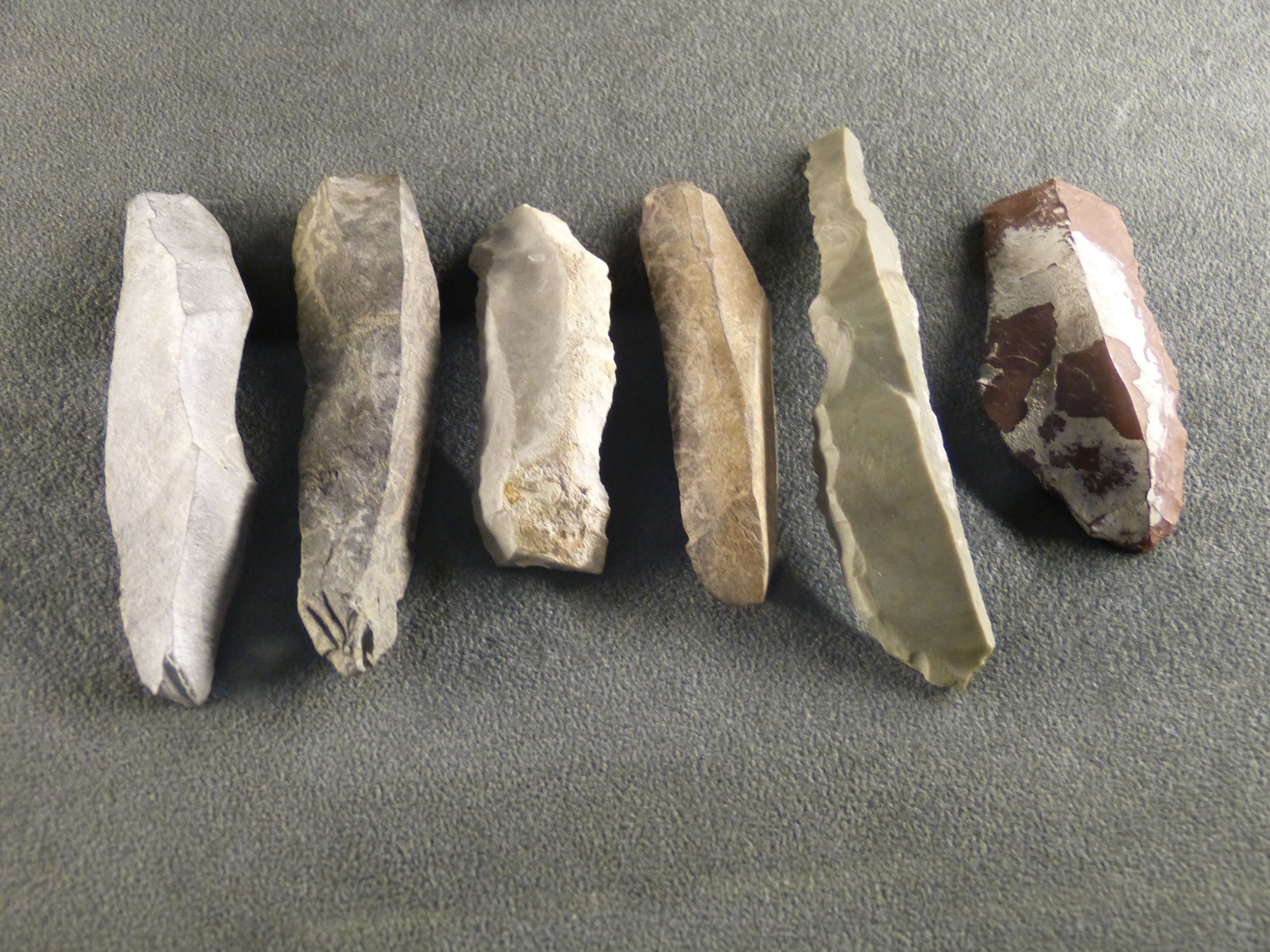 Natural History Museum, Vienna ( Austria ). Aurignacian points ( Dufour bladelets ) from Krems-Hundssteig.